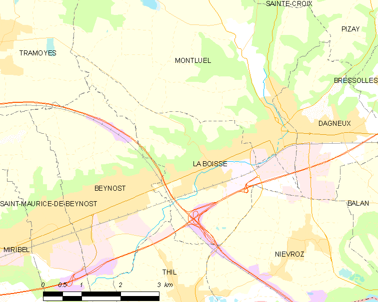 Map of French commune: La Boisse Map commune FR insee code 01049.png